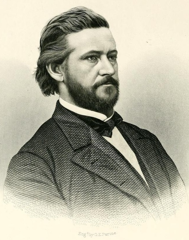 Delos R. Ashley (Nevada Congressman)